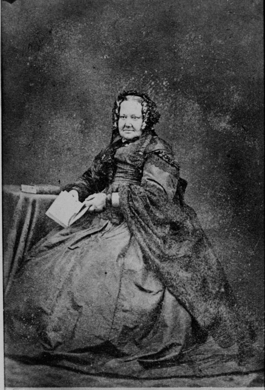 Anne Camfield from state archives 1860s.